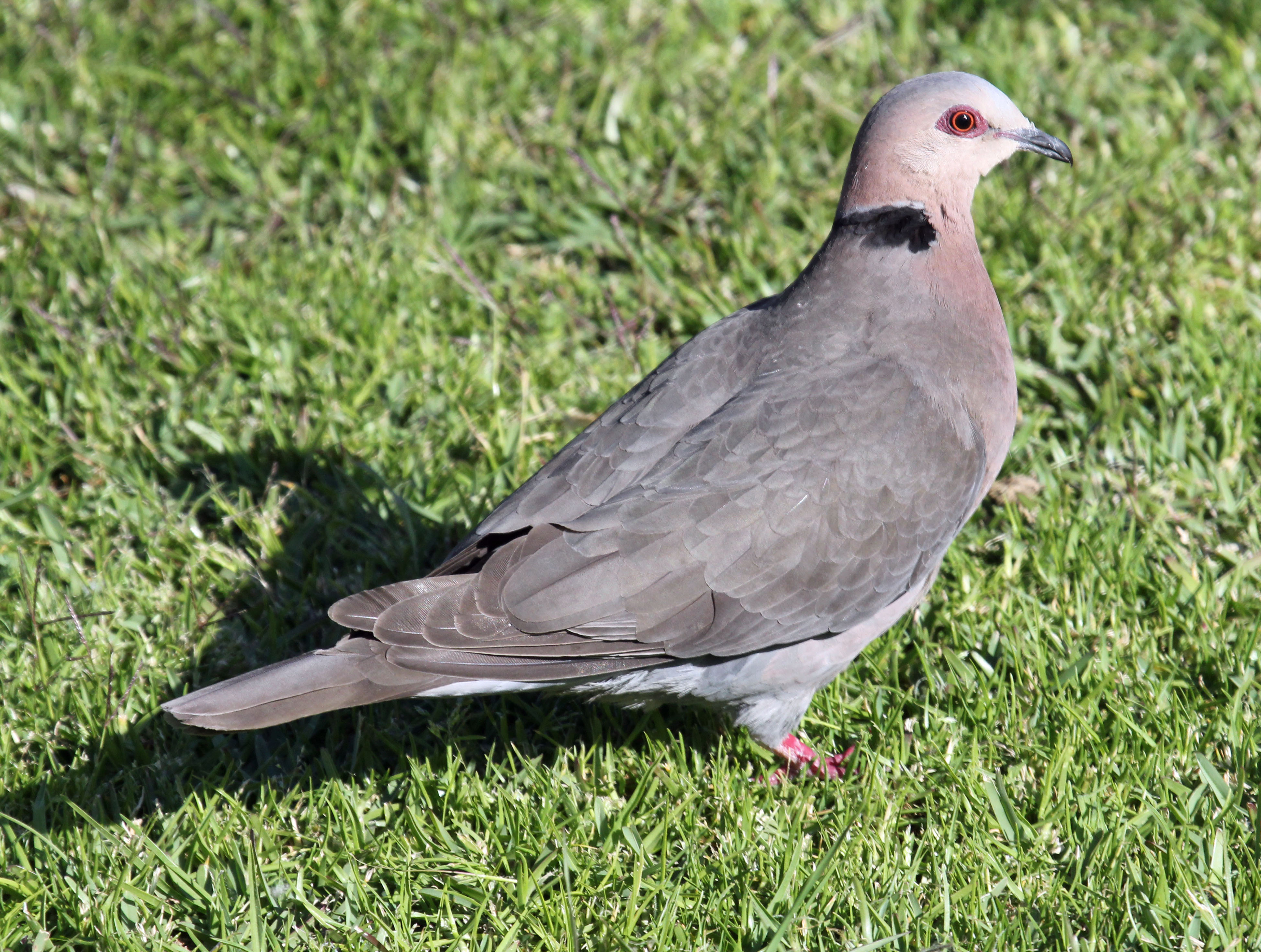 Red-eyed Dove (Streptopelia semitorquata) at Cape Town, South Africa